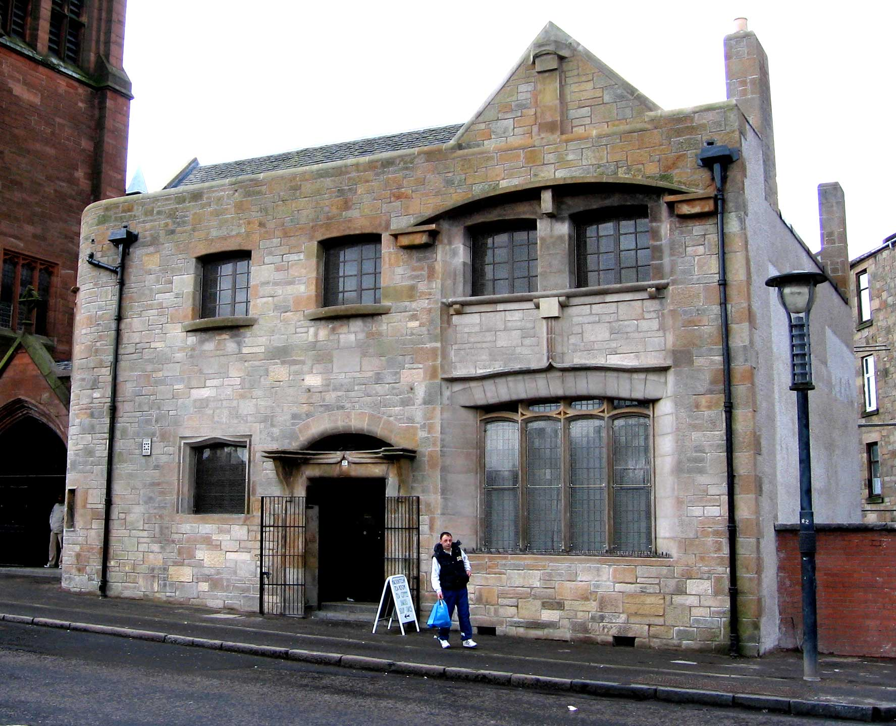 Ruchill Church Hall, Glasgow designed by Charles Rennie Mackintosh.